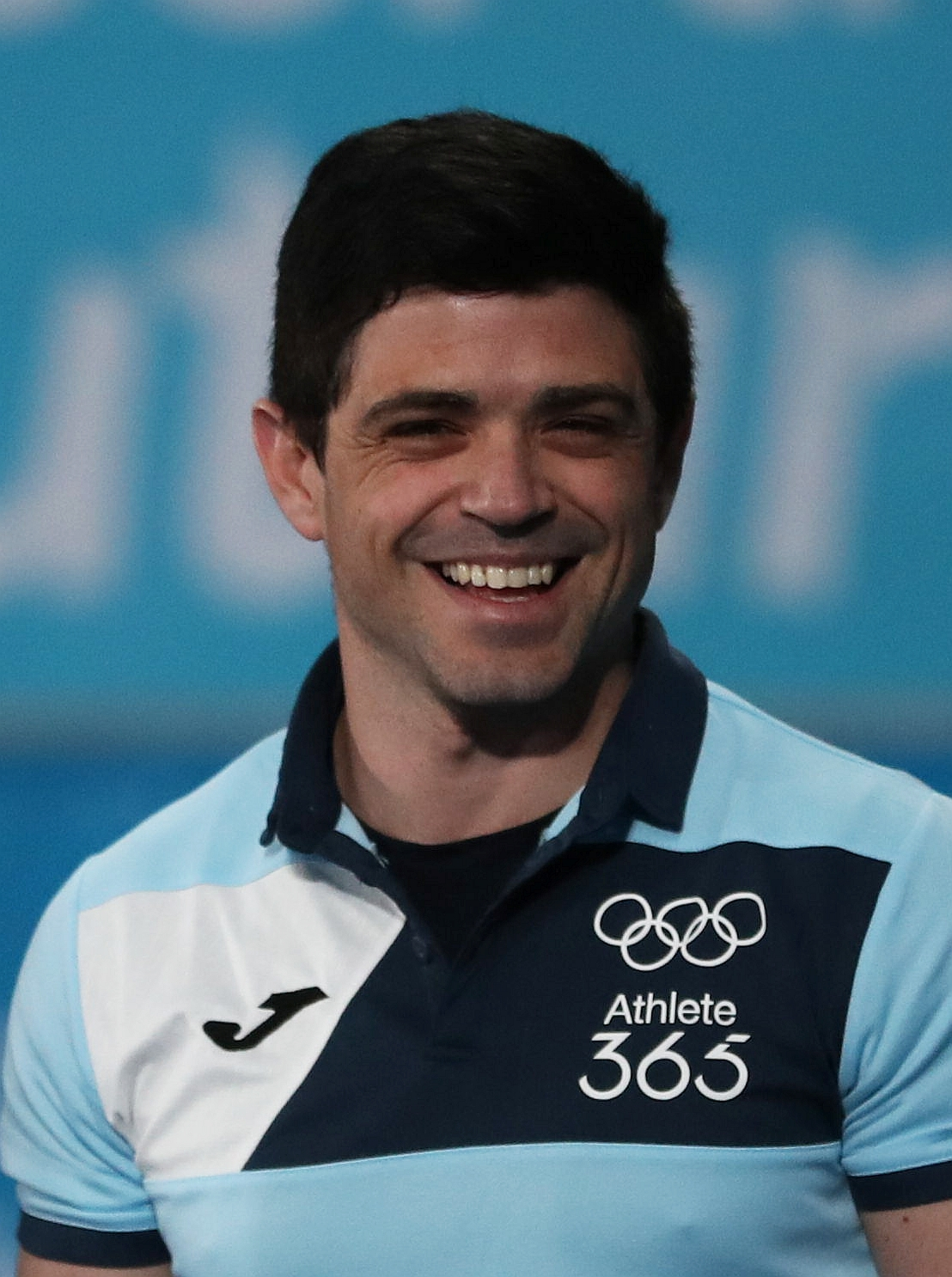 Horizontal bar qualification of the boys' artistic gymnastics at the 2018 Summer Youth Olympics in Buenos Aires on 10 October 2018.